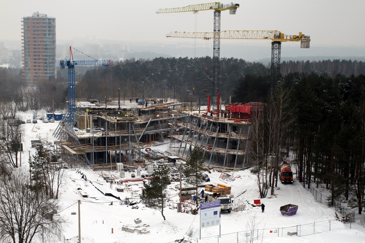 National Open Access Scientific Communication and Information Center (2011-01-26)